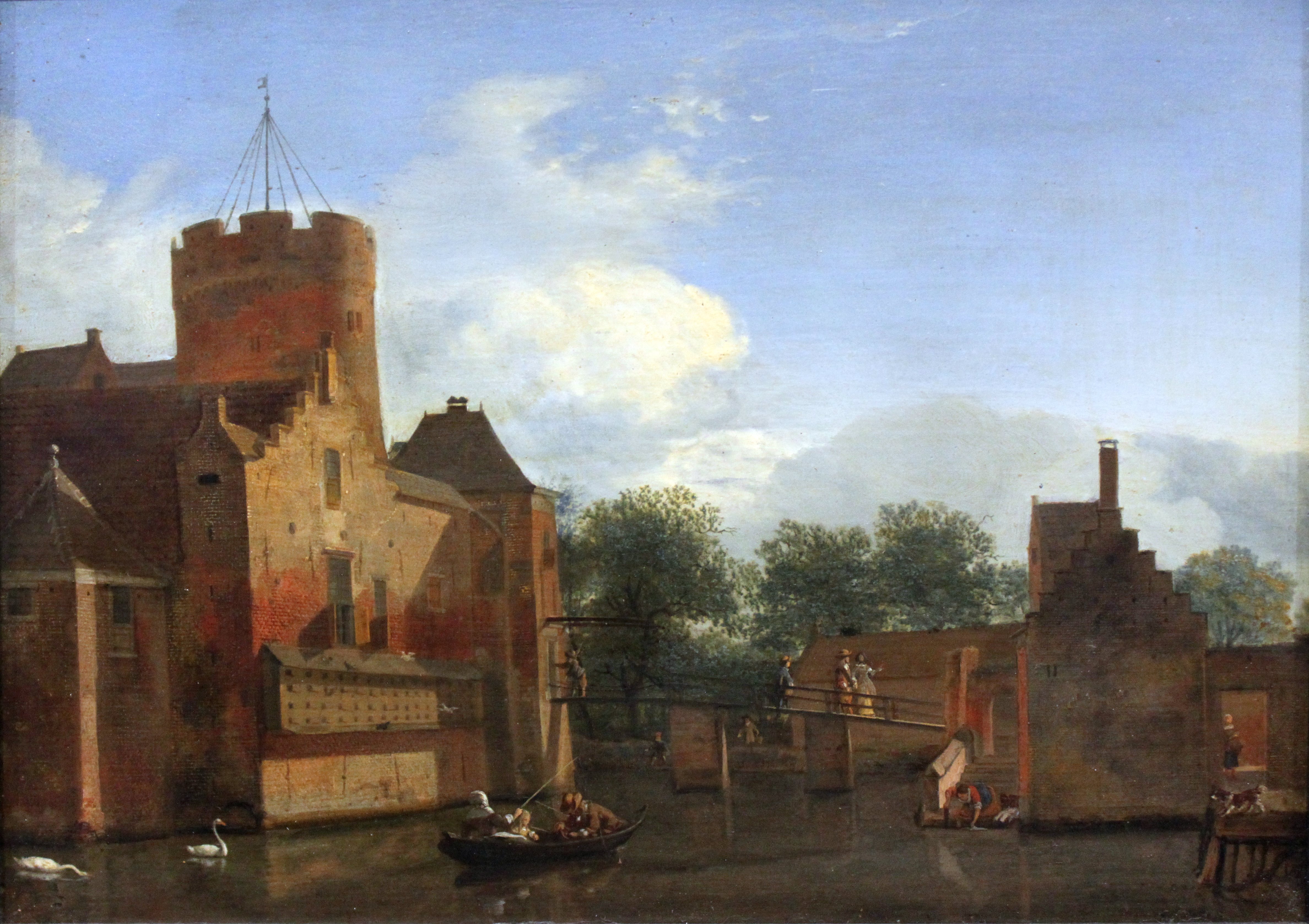 Loenersloot Castle in Holland